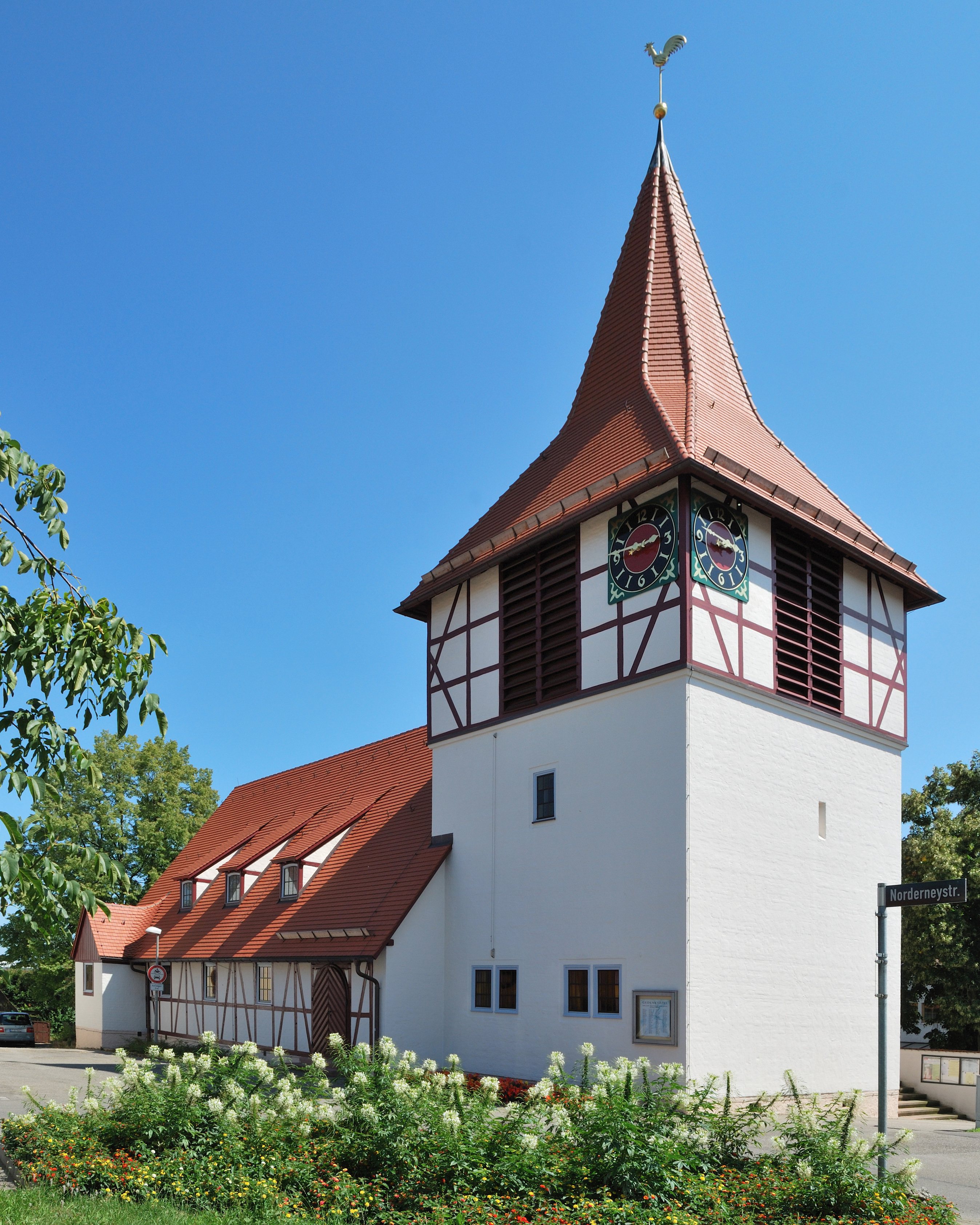 The protestant St. Michael church in Neuwirtshaus, a district of Stuttgart in Germany.